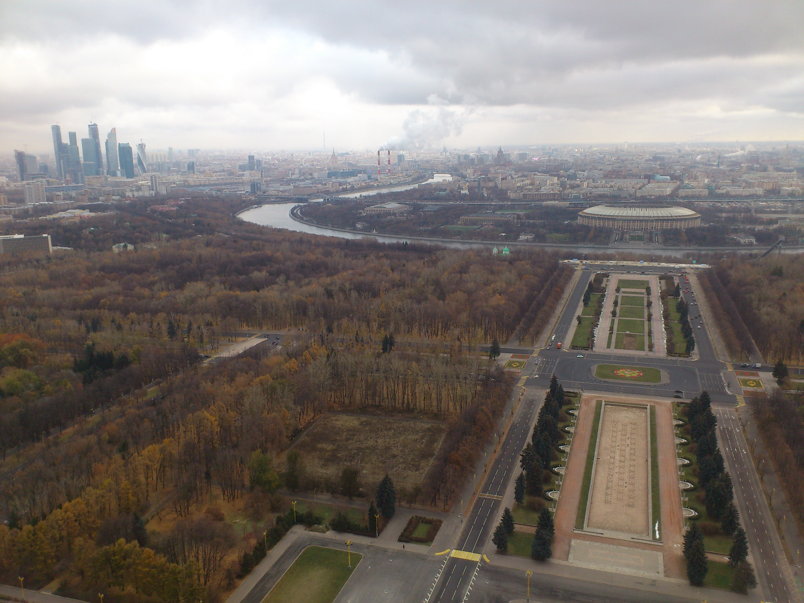 Ramenki District, Moscow, Russia